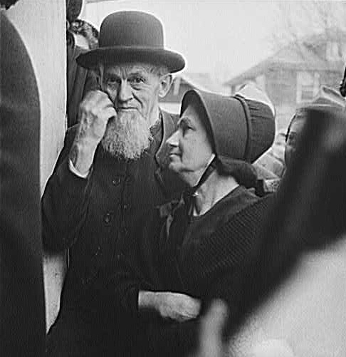 Lititz, Pennsylvania. A Mennonite and his wife at a public sale.